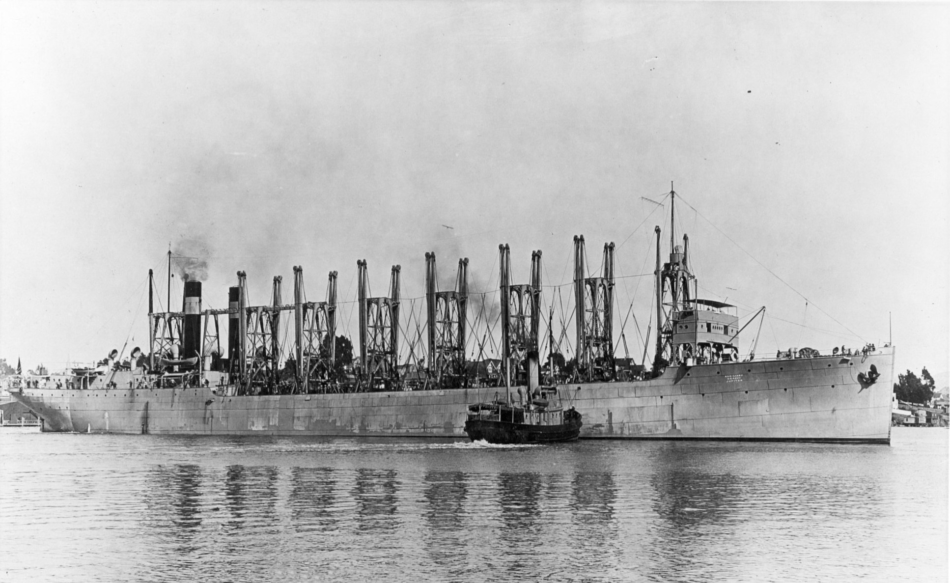 The U.S. Navy collier USS Jupiter (Collier No.3, later AC-3) at Mare Island, California (USA), on 18 December 1913.